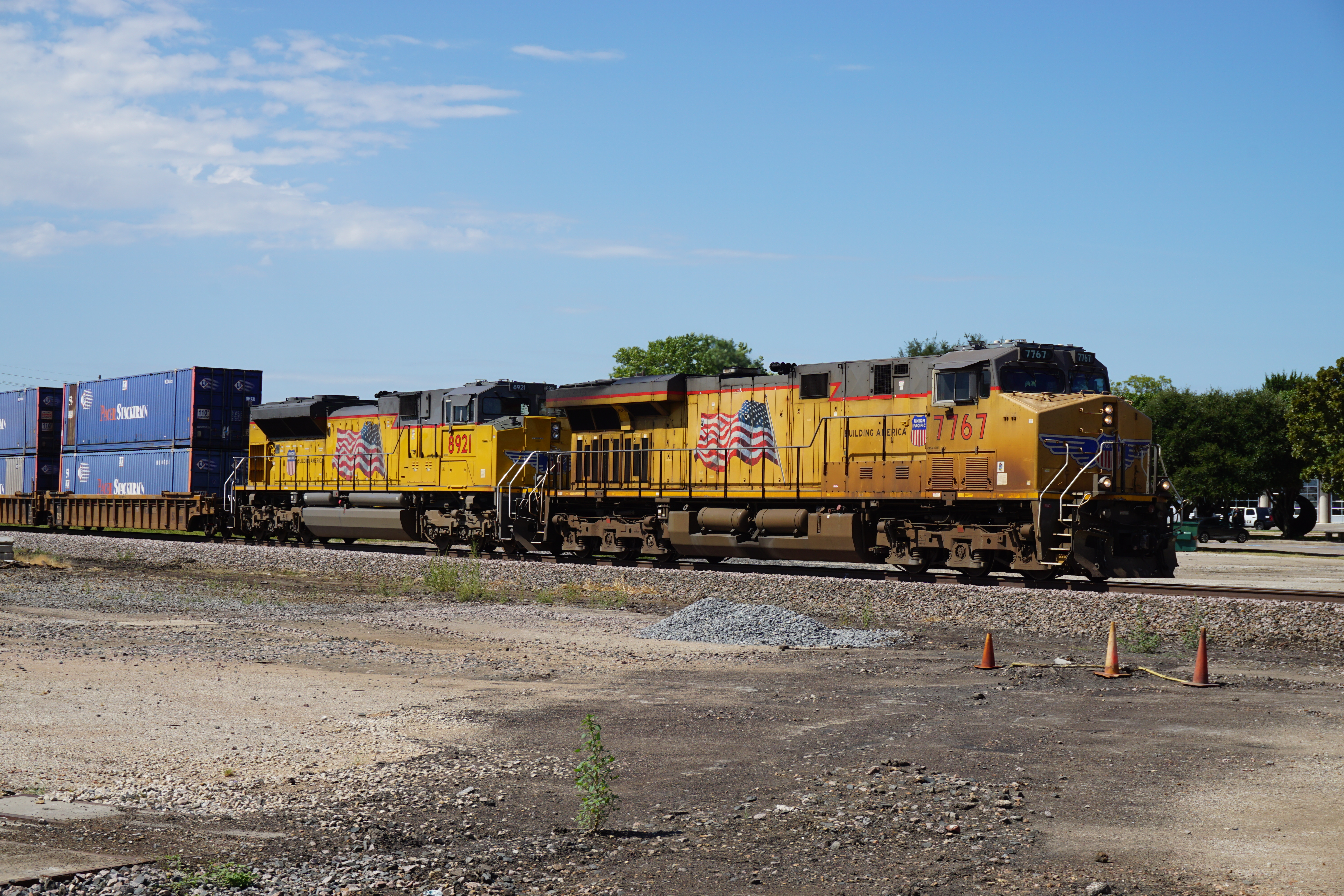 A Union Pacific freight, led by GE C45ACCTE #7767 and EMD SD70ACe #8921, in Denton, Texas (United States).